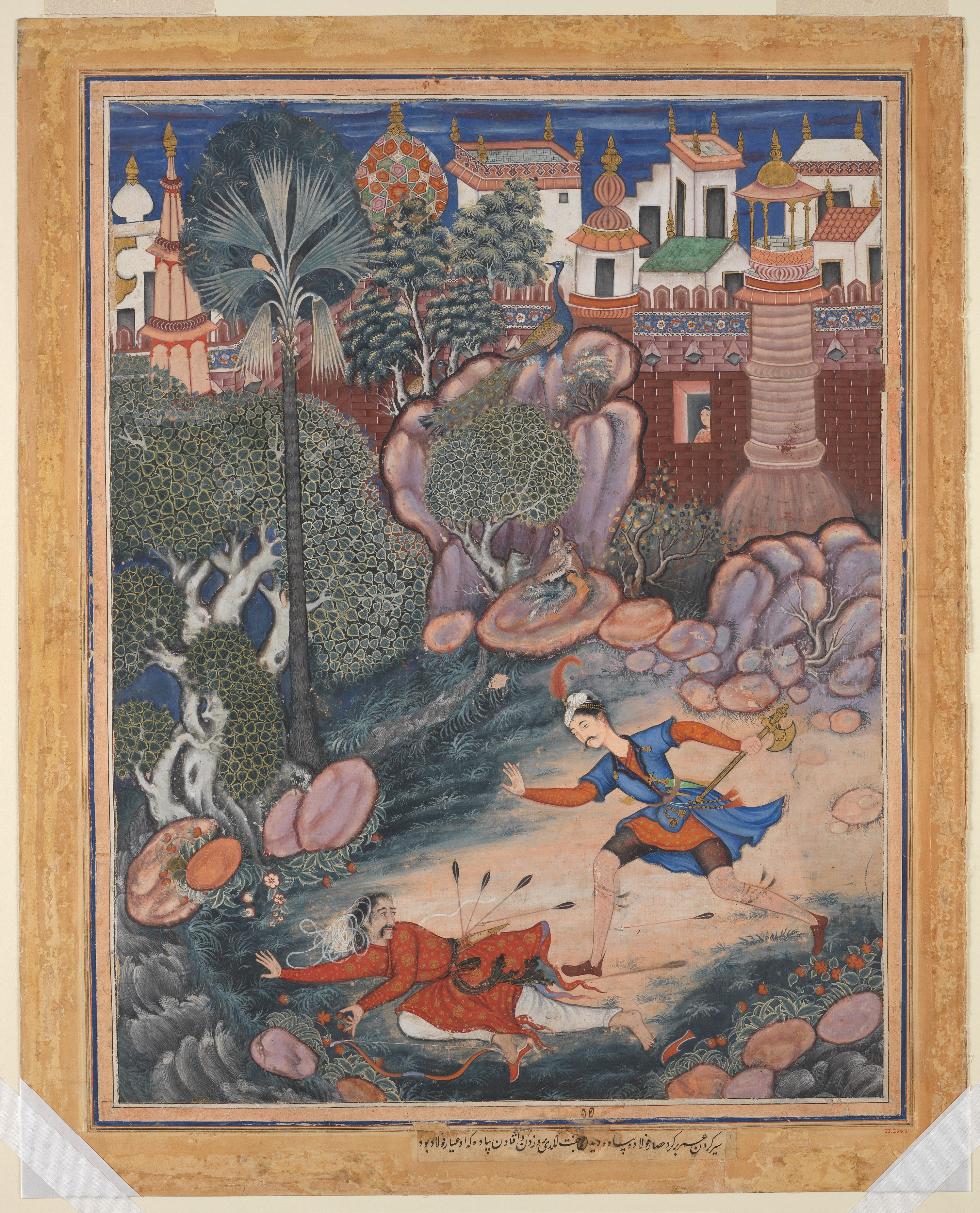 Folio from an illustrated manuscript; Codices